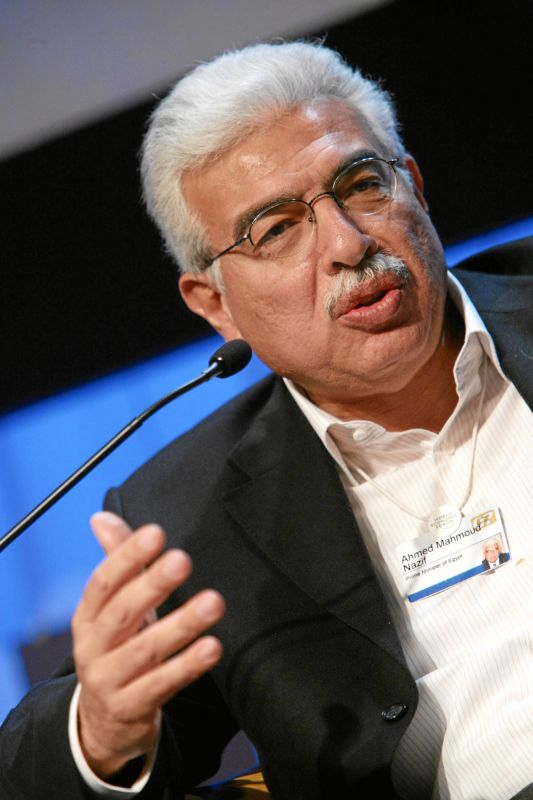 Ahmed Nazif